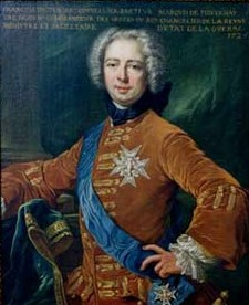 Portrait of François Victor Le Tonnelier de Breteuil (1686-1743)